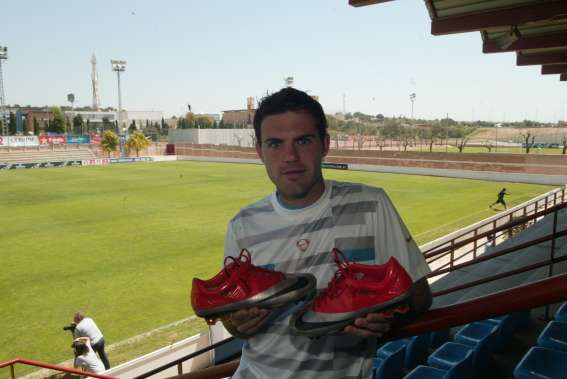 Juan Mata, Spanish footballer.